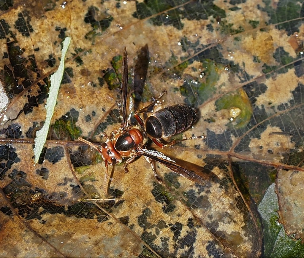 Vespa basalis, Taiwan